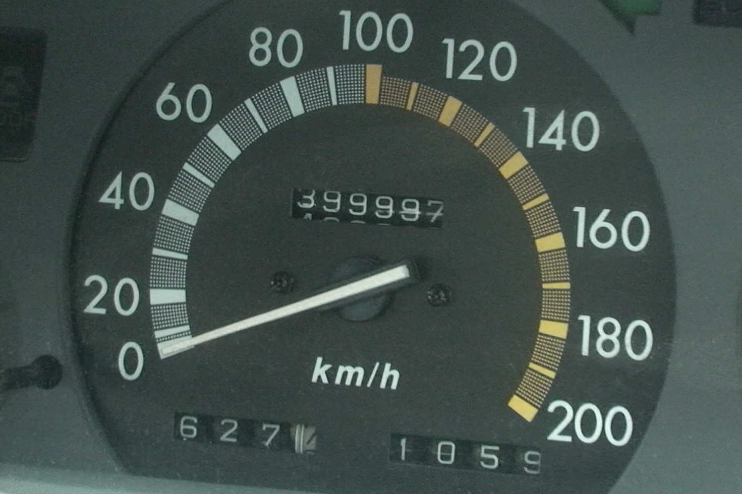 Odometer in 1991 Toyota Camry as sold in Australia.